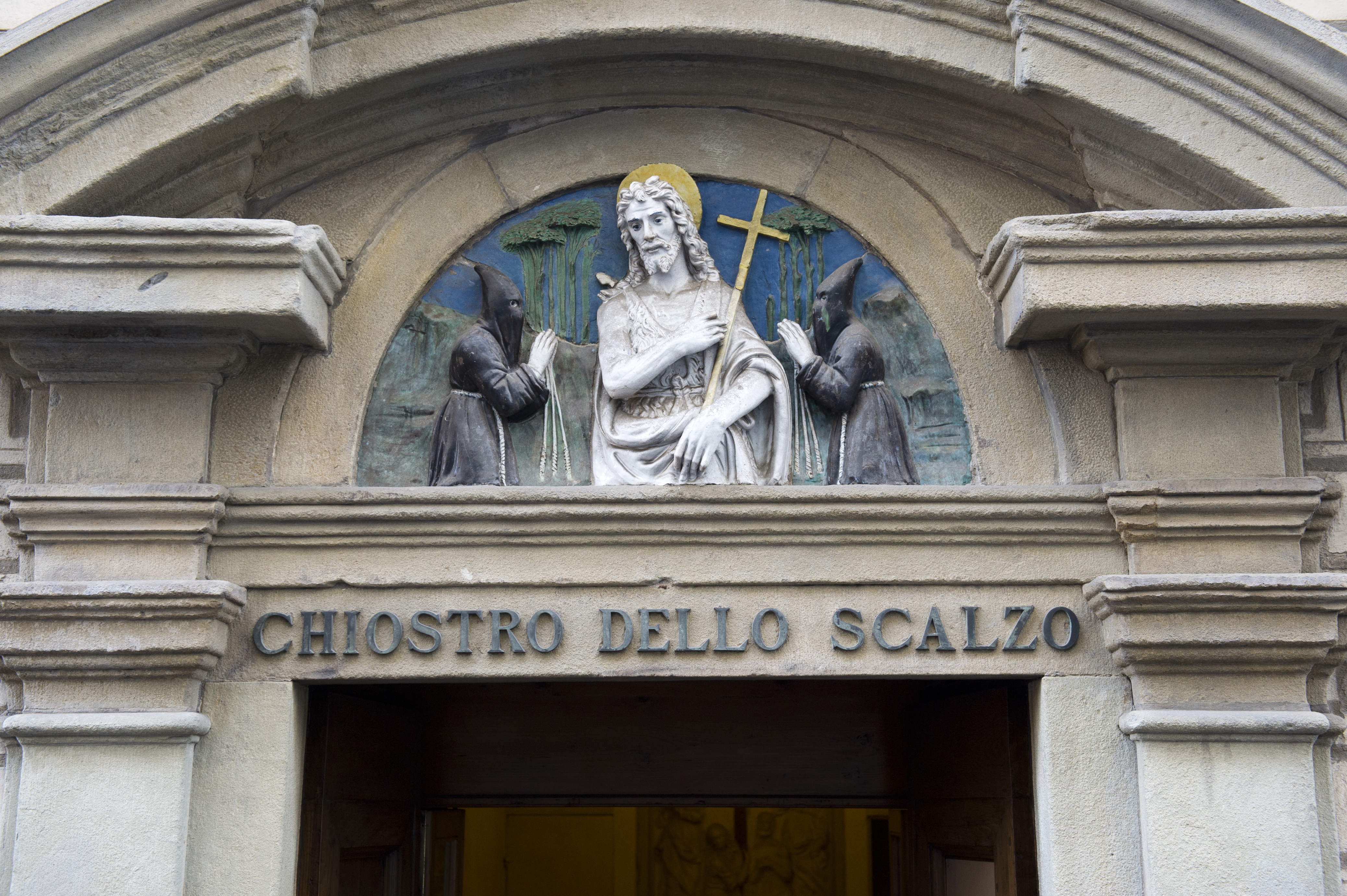 The Scalzo brothers wore black garments